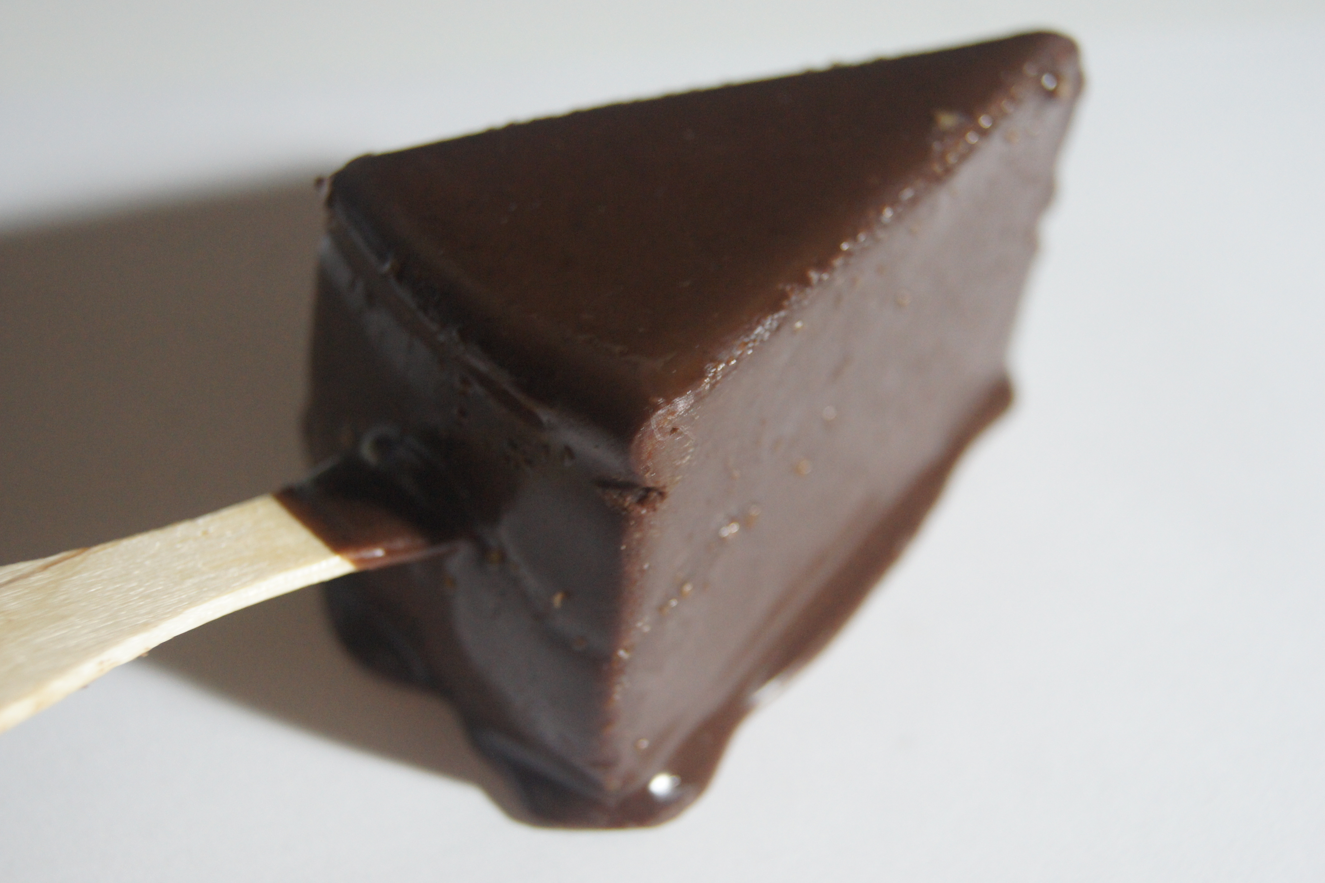 A Cheesecake covered with chocolate on a stick . Please note that this dessert was purchased by me, at a now defunct bakery on First avenue in Manhattan (not at any [including the Minnesota] state fair as some websites have said).